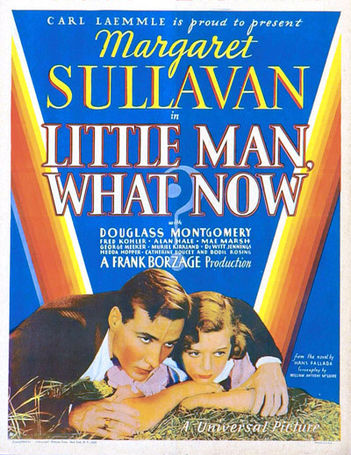 Lobby card or poster for the 1934 film Little Man, what Now? Because the file and other internet copies of it are relatively small, it's not possible to visually determine what's written at lower left. Copyright searches were done in both artwork and motion picture renewals for the years 1961 and 1962. Nothing pertaining to this title was discovered; there's no evidence that copyright continues to be claimed on this material.